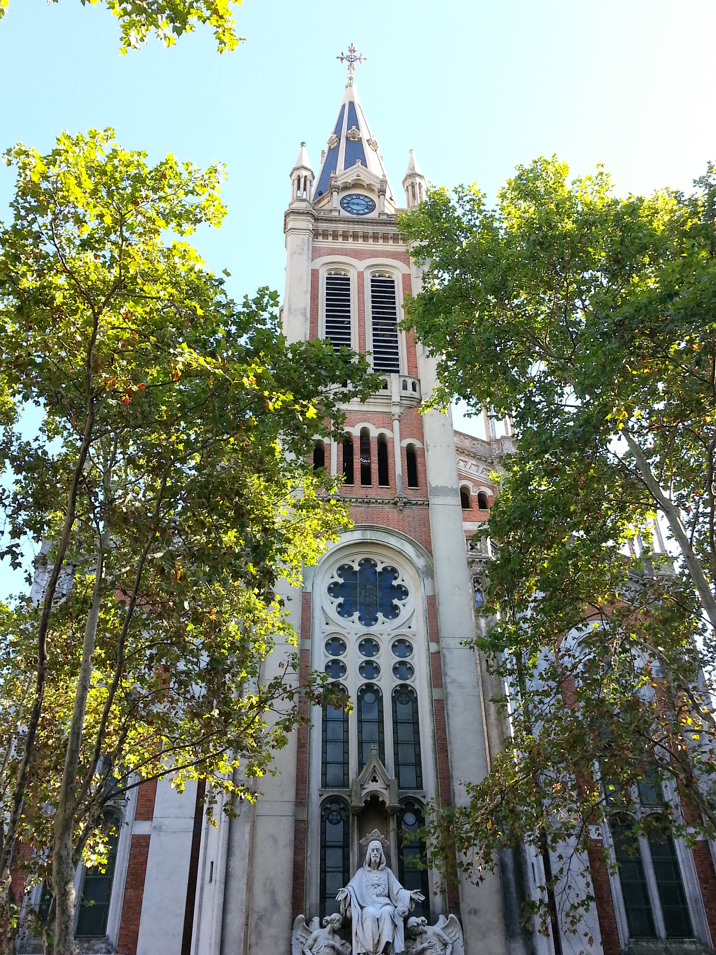 Facade of the Basílic of Mary Help of Christians and St Charles Borromeo